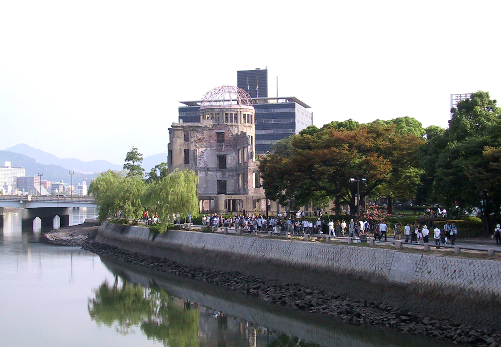 Citizens of Hiroshima walk past the A-Bomb Dome, the nearest building to have survived the city's atomic bombing in 1945, on their way to a memorial ceremony on August 6, 2004.